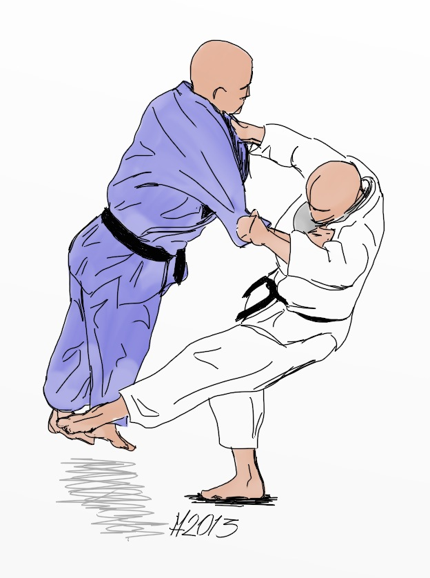 Illustration of the judo throw okuri-ashi-barai (or harai), known as double-leg-sweep, or sending-leg-sweep in English.